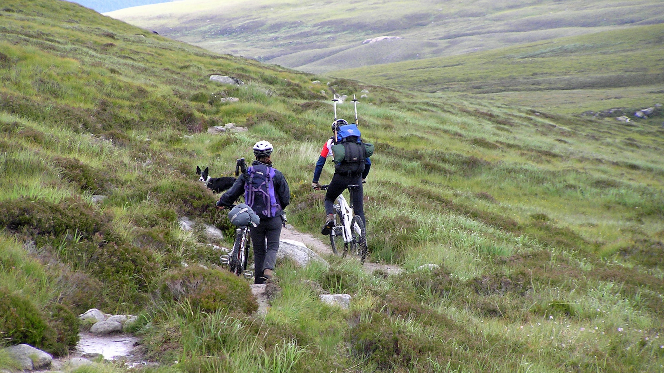 Mountain Cyclists between Glen Dee and Glen Luibeg on Mar Lodge Estate (a National Trust for Scotland property) on 28 July 2010